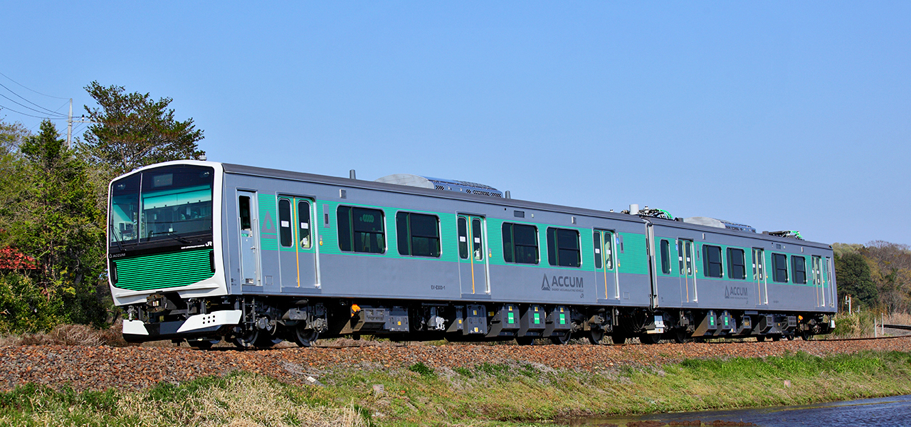 JR East EV-E301 series battery electric multiple unit set V1 on the Karasuyama Line between Taki and Kobana Stations